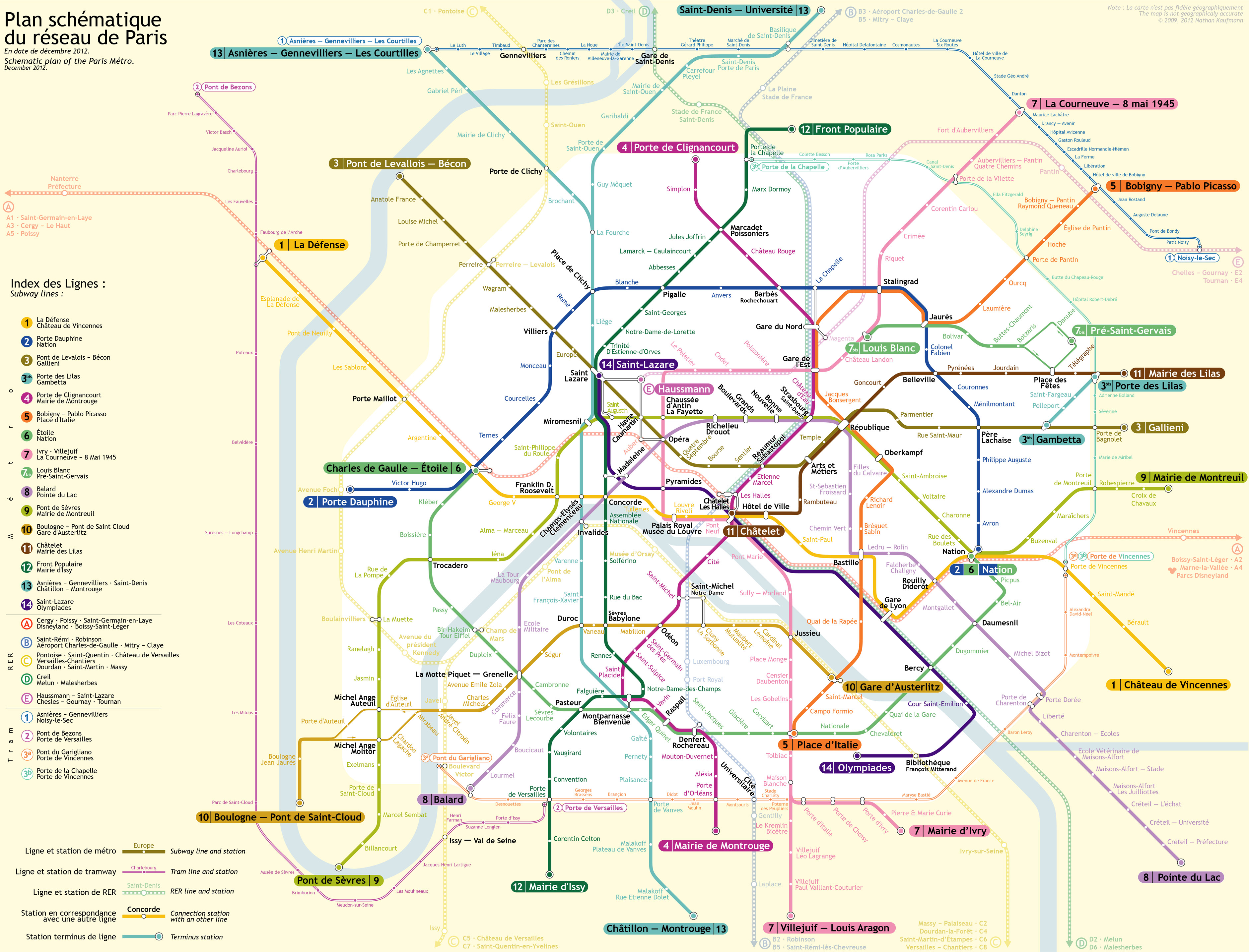 Network map of the Paris Métro